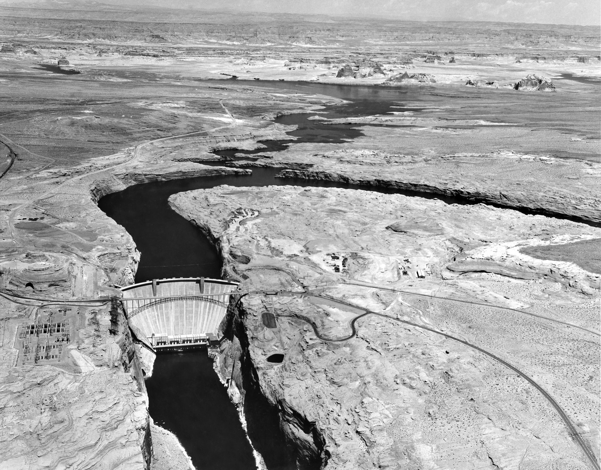 Aerial view of the Glen Canyon Dam, 1965, US Bureau of Reclamation.